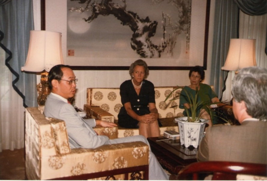 Chien-Graham,1986-09-11